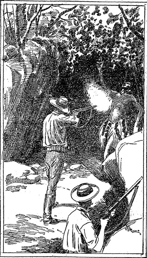 Caption reads: The Matabele Revolt -- The Shooting of the Prophet Mlimo. (One of the most exciting incidents in the Matabele war has been the shooting of the "god" Mlimo, the prophet and witch doctor, who was mainly responsible for the insurrection. Sir F. Carrington sent Mr. Burnham, the American scout, and Mr. Armstrong, the Assistant Commissioner for Native Affairs in the Mangwe district, to capture the prophet in his cave in the heart of the Matoppo Hills. They found the Mlimo in his cave, but as the natives were obviously preparing a trap for the white men, it was found impossible to capture the Mlimo alive, so Burnham shot him in the cave.-- London Graphic.)